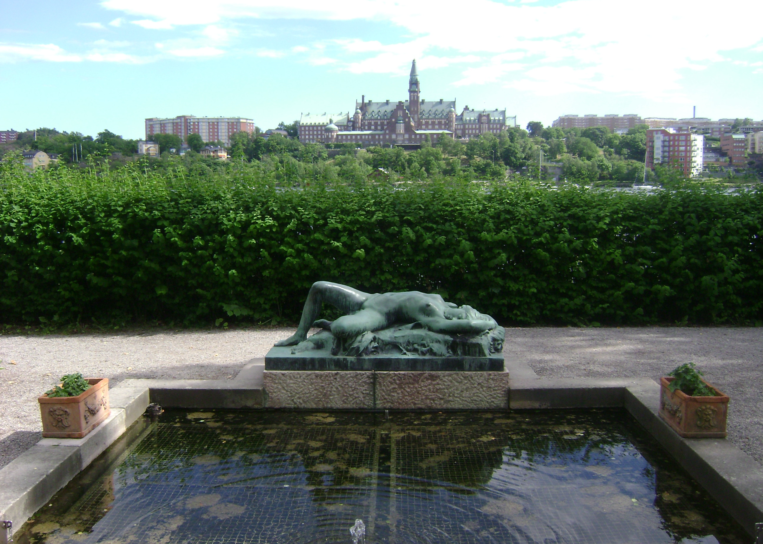 Sweden. Stockholm. Djurgården. Prins Eugens Waldemarsudde, Per Hasselberg - Näckrosen (Waterlily)